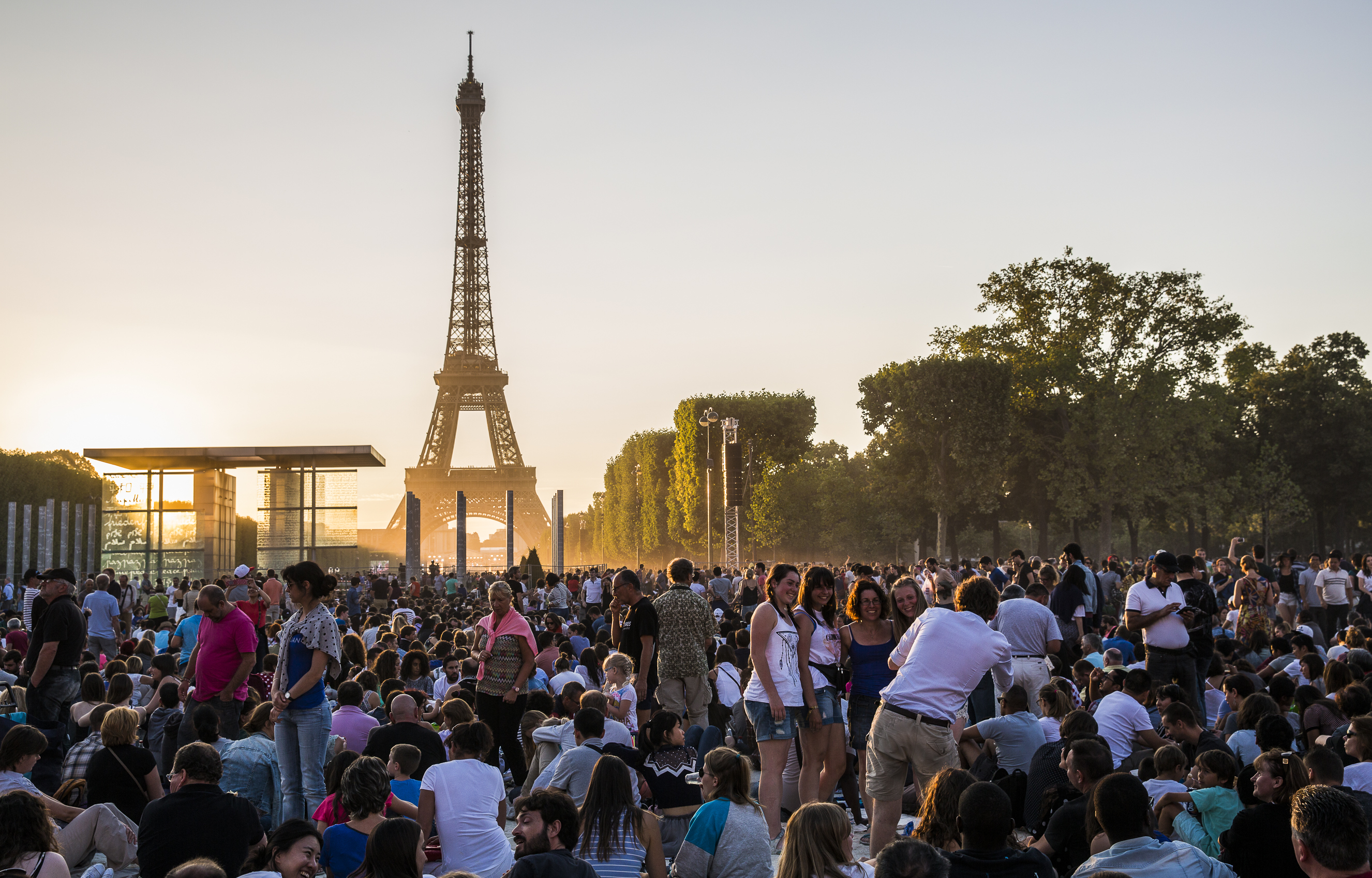 2015 Bastille Day on Champ-de-Mars, Paris.